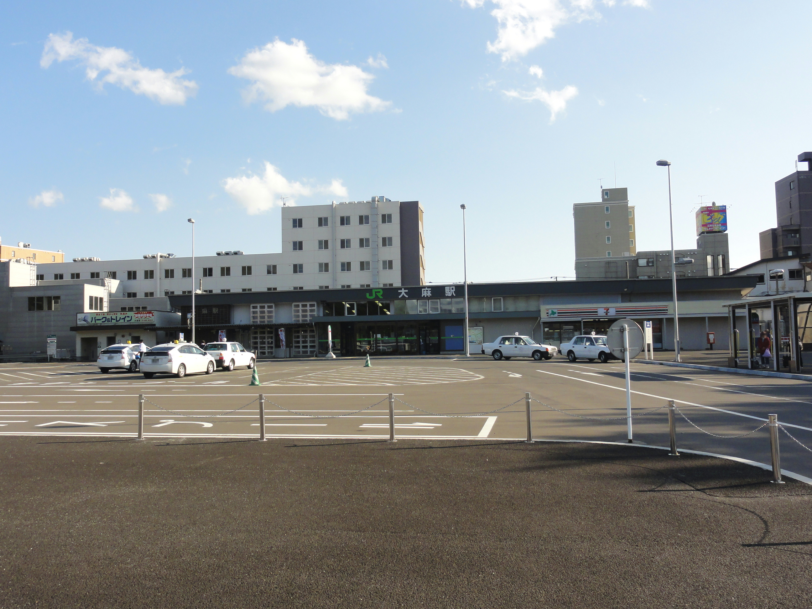 North entrance of Ōasa Station on the Hakodate Main Line (Ebetsu, Hokkaidō)